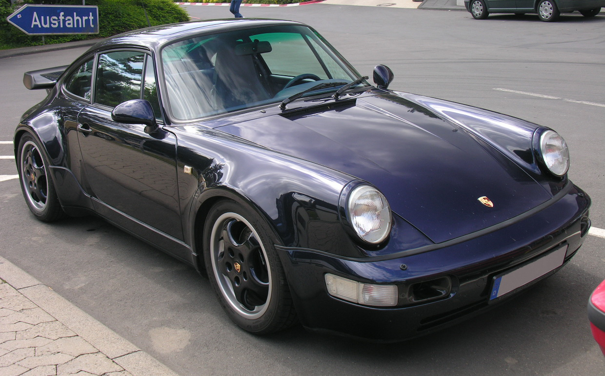 Porsche 964 Turbo (Porsche 965). Photo taken on Nürburgring.